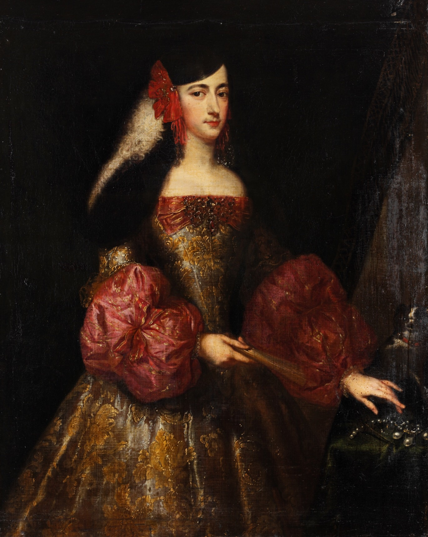 Portrait of María Teresa Fajardo de Requesens y Zúñiga, Duchess of Montalto, Grandee of Spain, in her own right 7th Marquise of los Vélez.